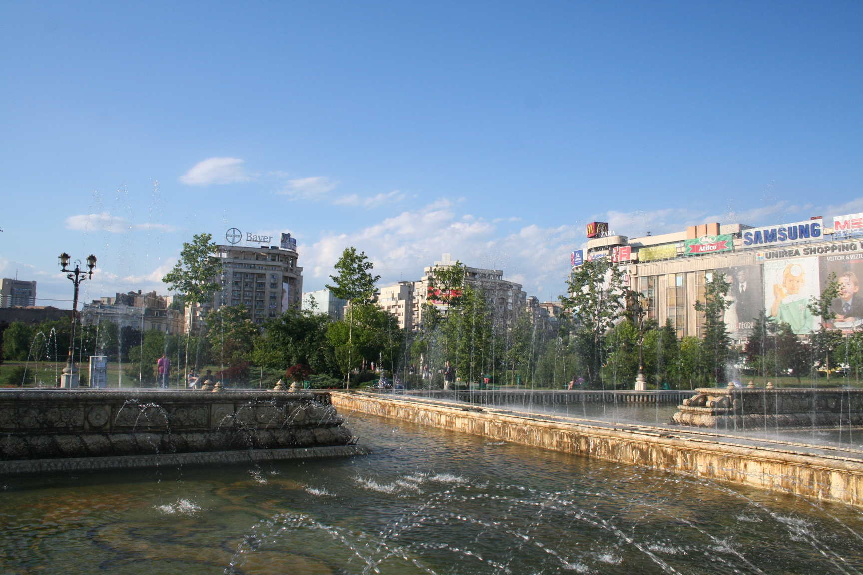 Union Square, Bucharest